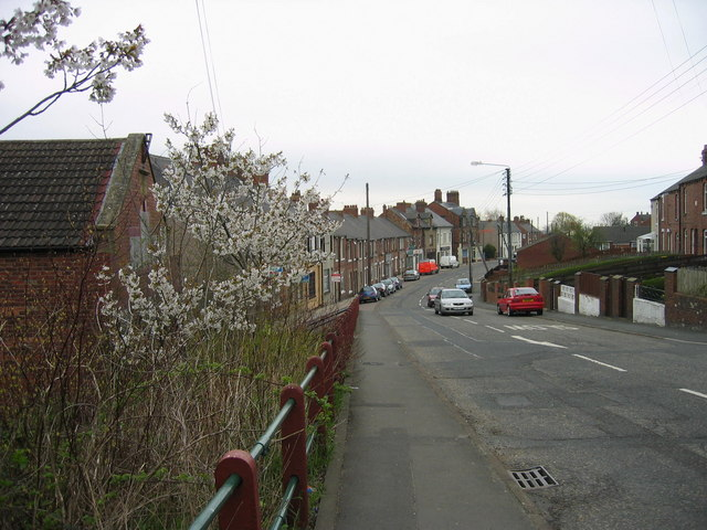 Craghead